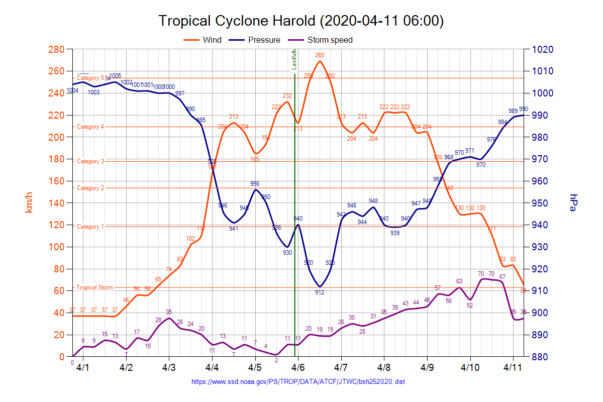 Tropical Cyclone Harold (2020) chart